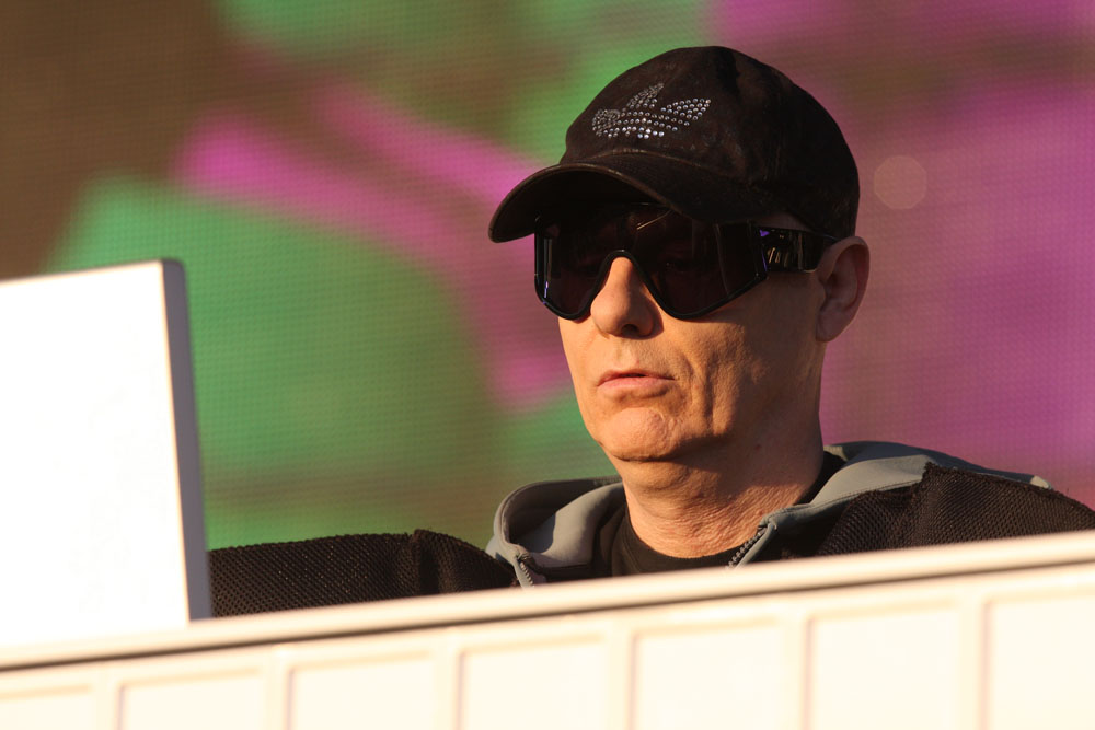 The Pet Shop Boys play the 2011 Sydney Resolution Concert.